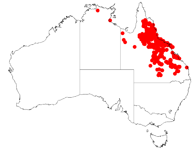 Acacia leptostachya Occurrence data from Australasia Virtual Herbarium downloaded from on 8 December 2018